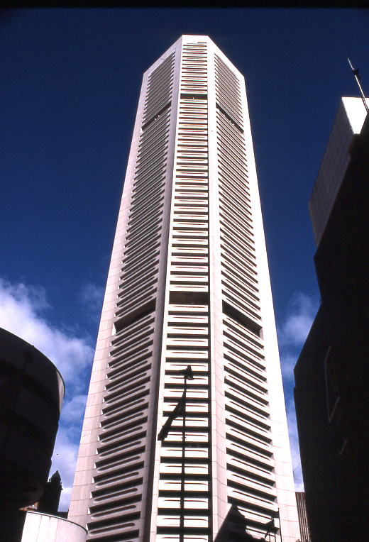 MLC building